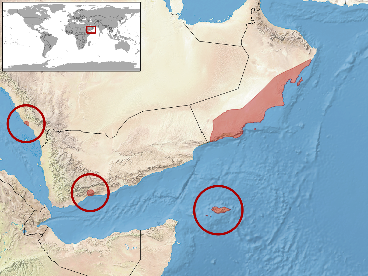 geographic distribution of Hemidactylus homoeolepis (Native: Oman; Saudi Arabia; Yemen)